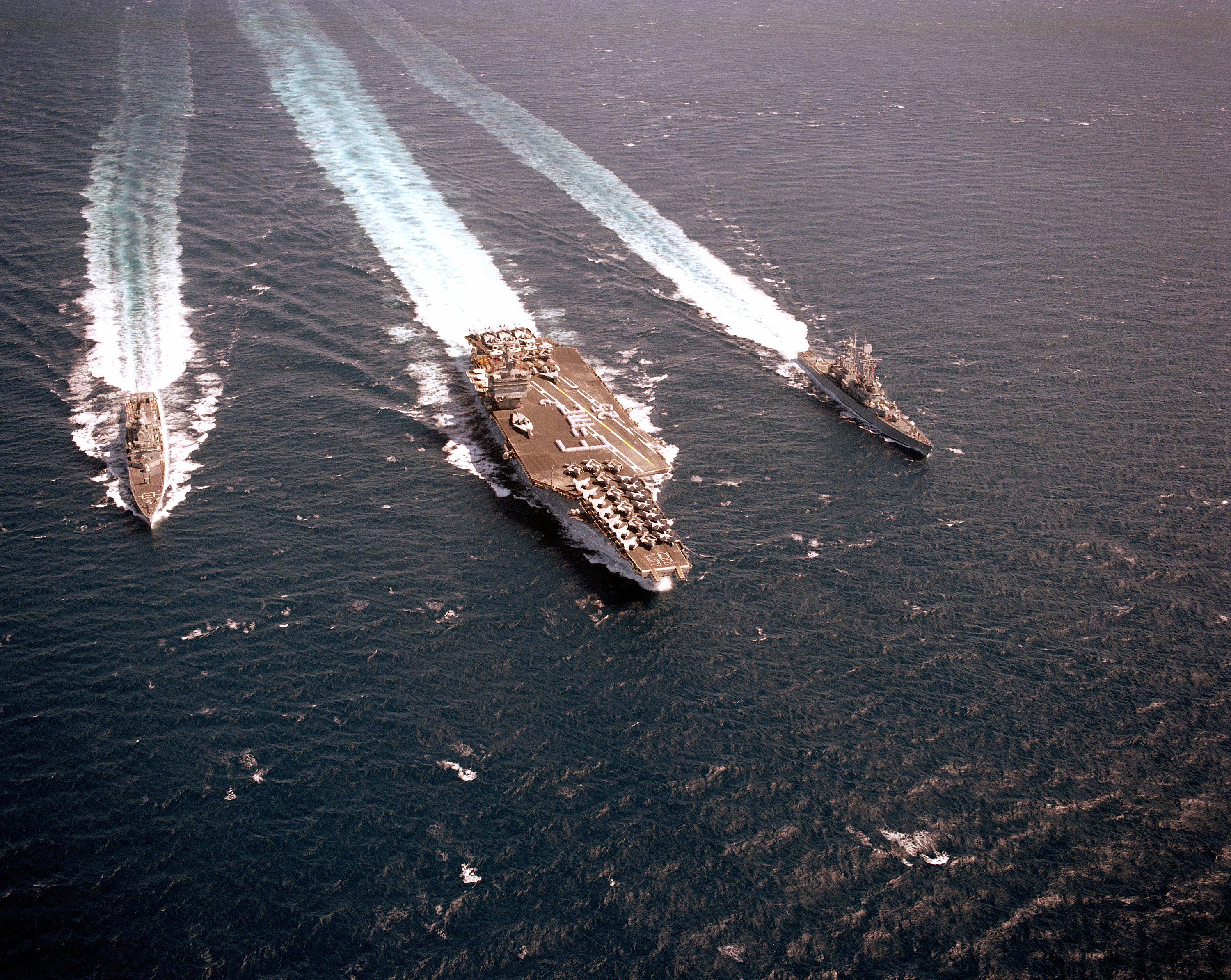 The U.S. Navy nuclear-powered Task Force One (TF-1) underway in the Pacific Ocean on a world cruise known as "Operation Sea Orbit" on 17 September 1986, commemorating the 25th anniversary of the 1961 cruise. The ships included the nuclear-powered aircraft carrier USS Enterprise (CVN-65) (center), which took part in the first cruise, accompanied by the guided missile cruisers USS Truxtun (CGN-35) (right) and USS Arkansas (CGN-41) (left).